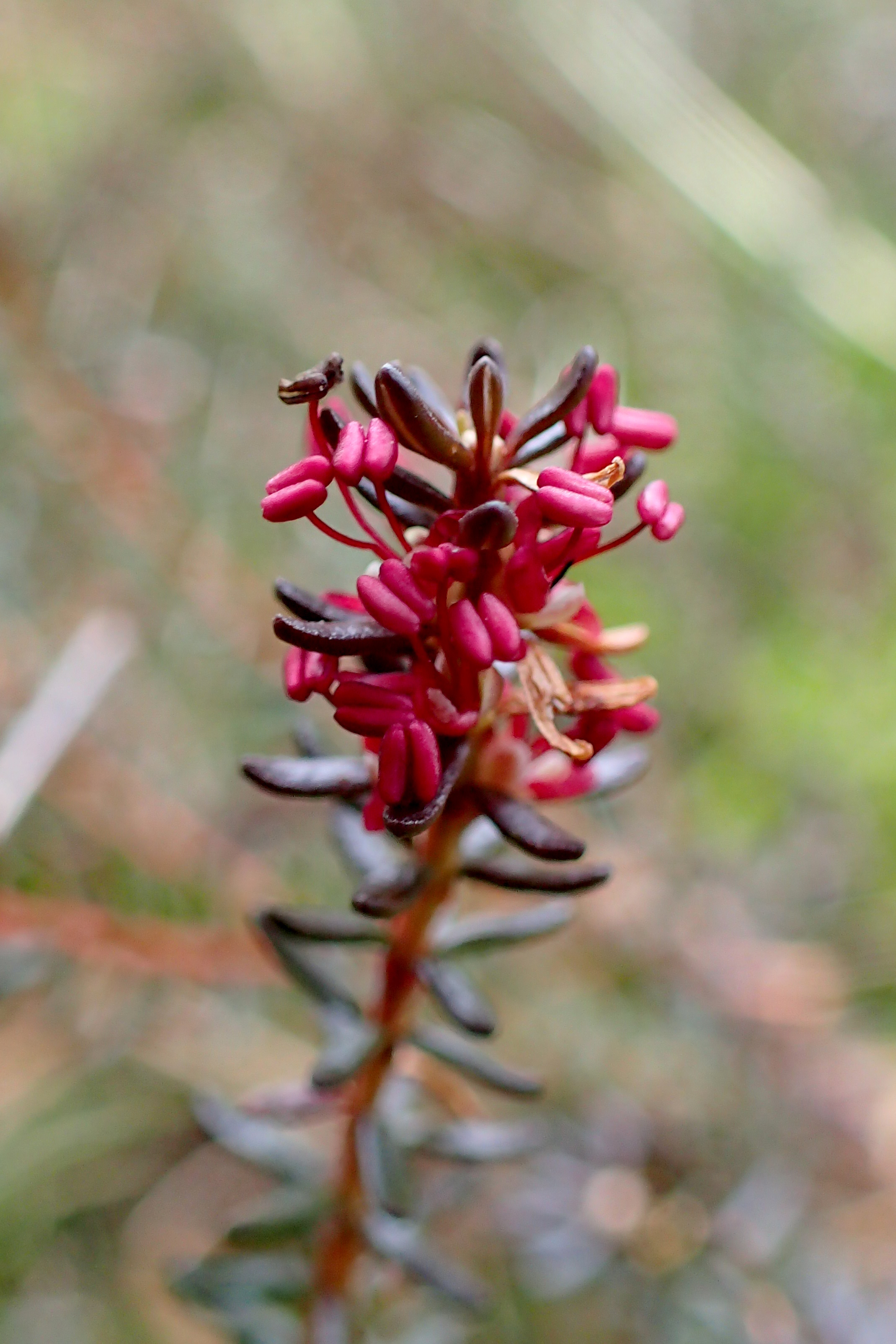 Empetrum nigrum subsp. nigrum in Rogowo on Baltic See, NW Poland. Male flowers